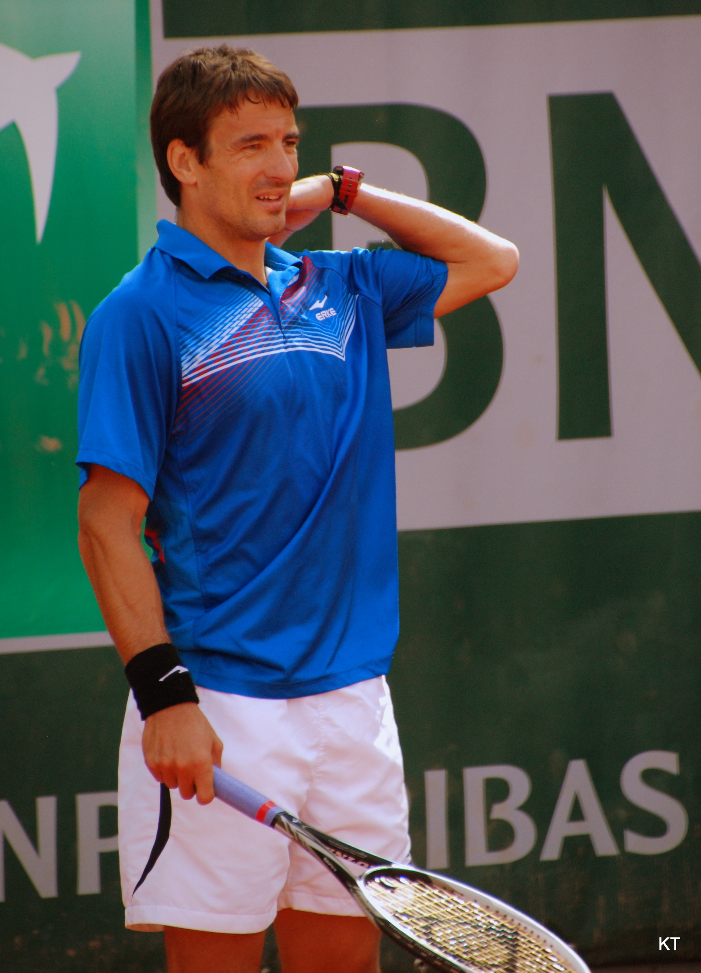 Tommy Robredo in Day 4 of Roland Garros 2013